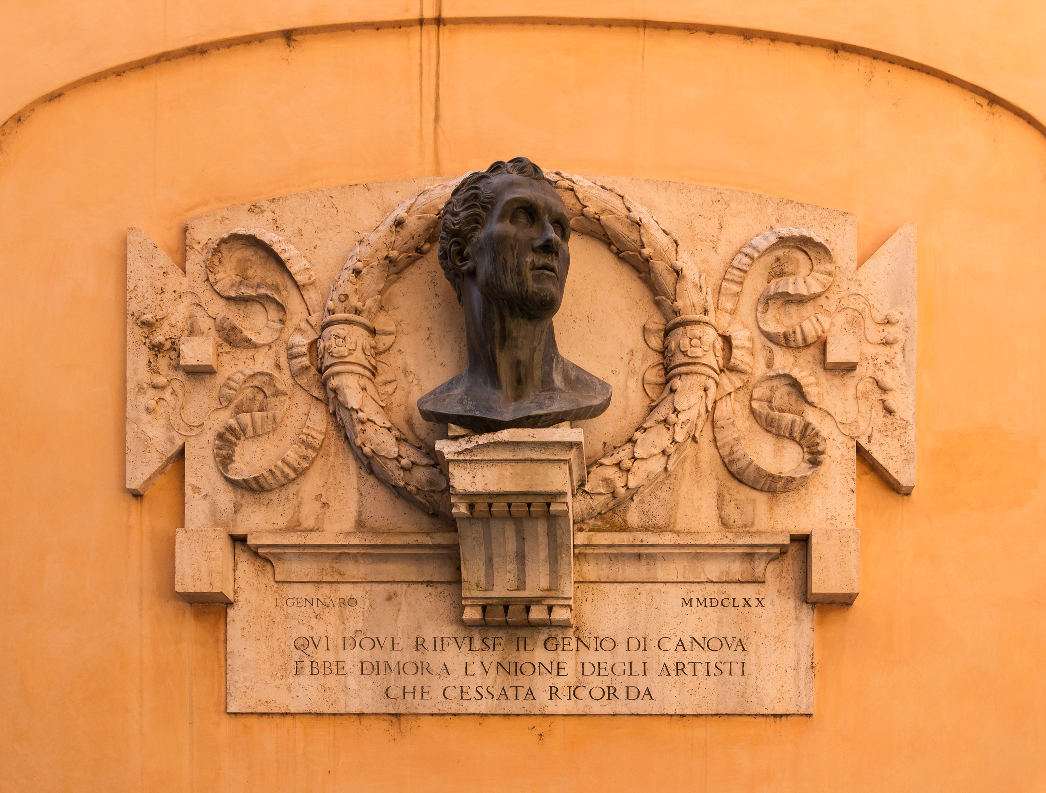 Bust to Antonio Canova, on a wall of his workshop, via delle Colonnette, Rome, Italy.